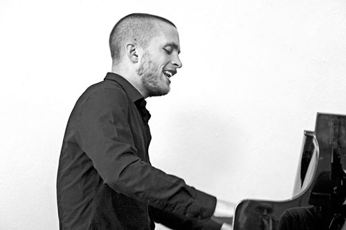 Magnus Hjort in concert in Aarhus, Denmark